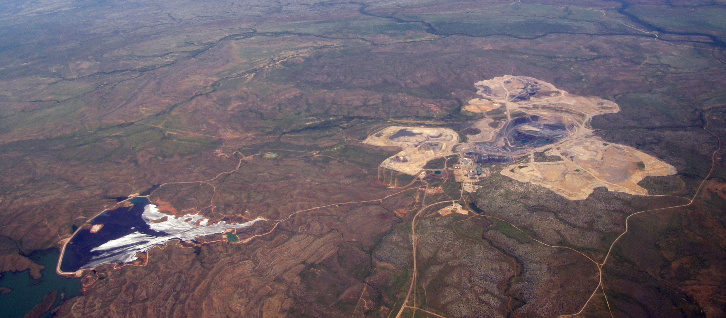 Century base metal mine, SHMS deposit, Queensland, Australia